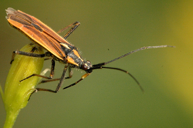 male Leptopterna ferrugata. Picture taken in Commanster, Belgian High Ardennes .